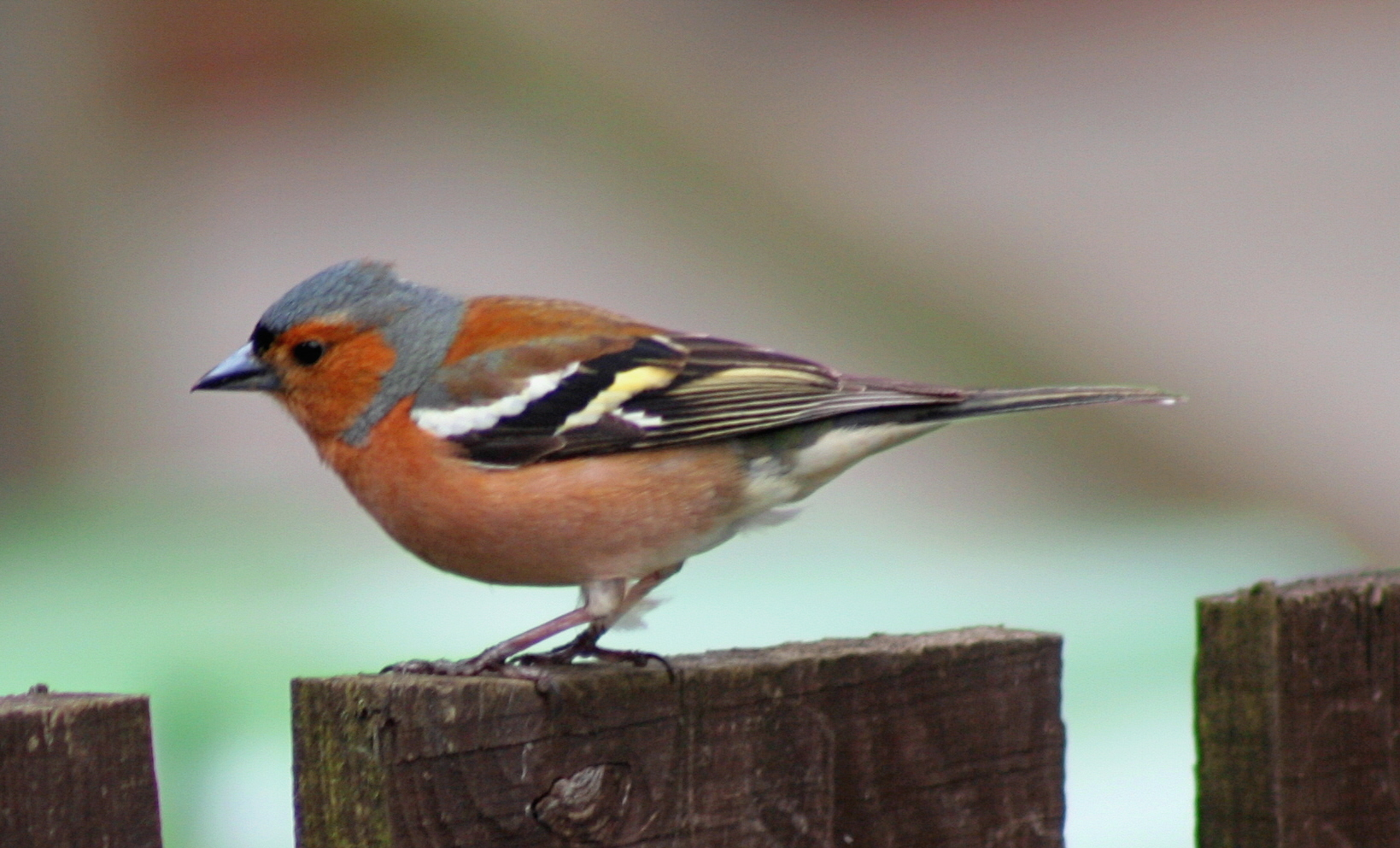 A more colourful visitor to my back yard than the usual jackdaws and rooks. One of Britains most abundant birds there were approximately 7 million breeding pairs in 1991, though the use of pesticides in gardens and farmland has seen a reduction in their numbers in recent years.